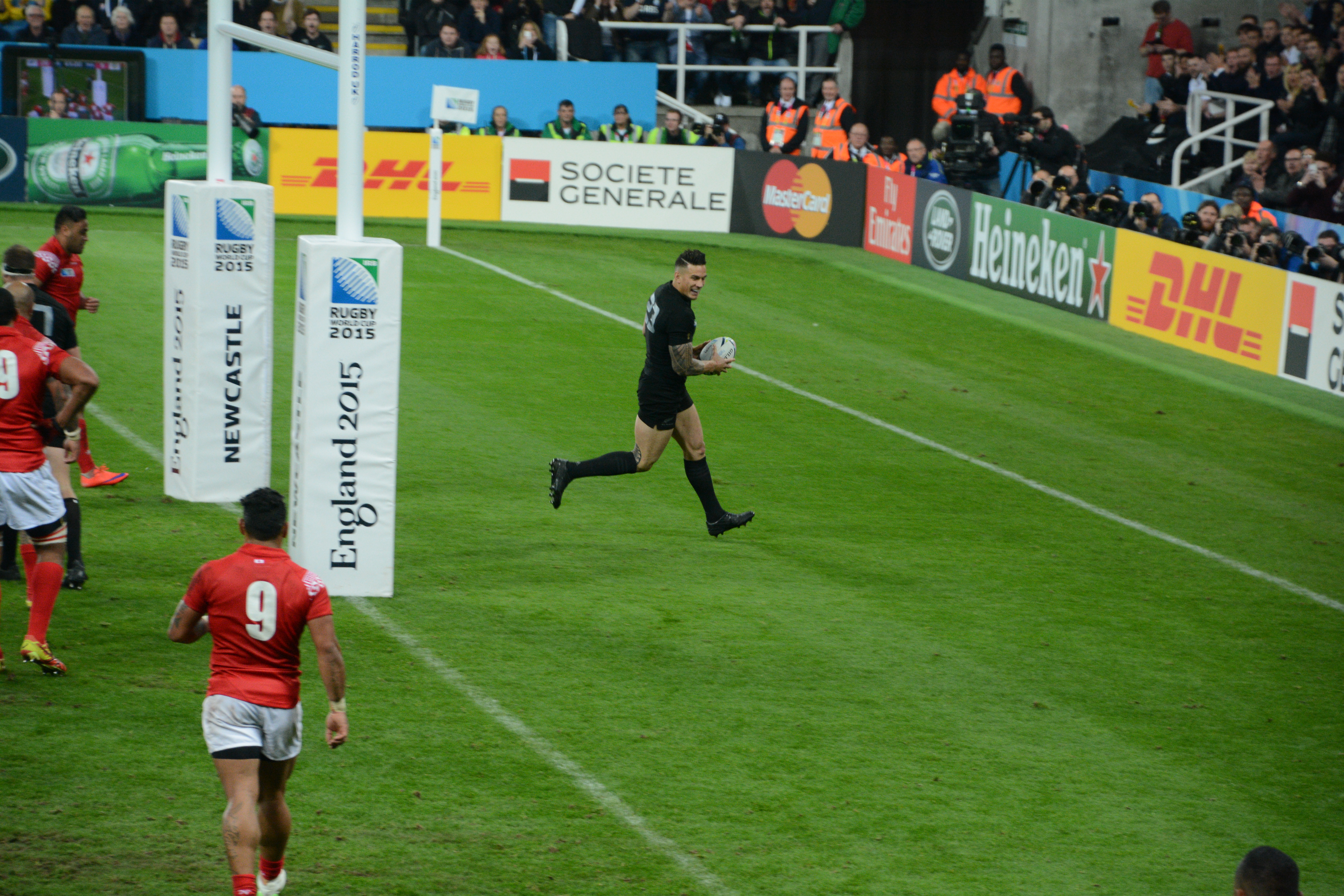 New Zealand international rugby union player Sonny Bill Williams during 2015 Rugby World Cup match against New Zealand at St. James’ Park, Newcastle upon Tyne.